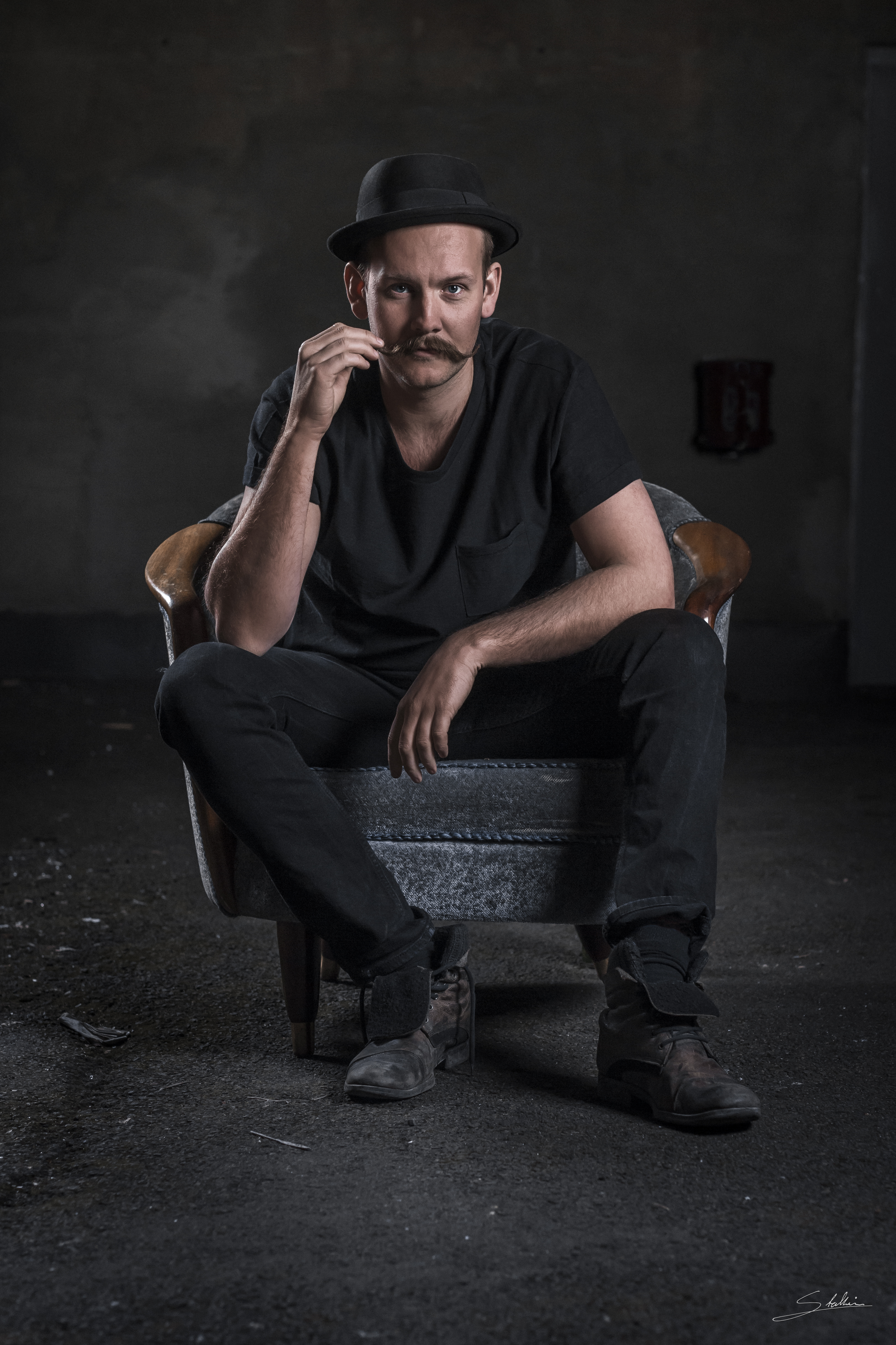 Portrait of Norwegian actor Kenneth Aakerland Berg by Bendik Stalheim Møller